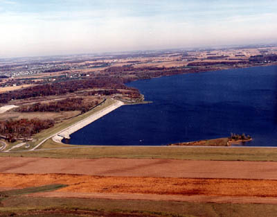 C.J. Brown Dam and Lake in Buck Creek State Park in Clark County, Ohio in the United States